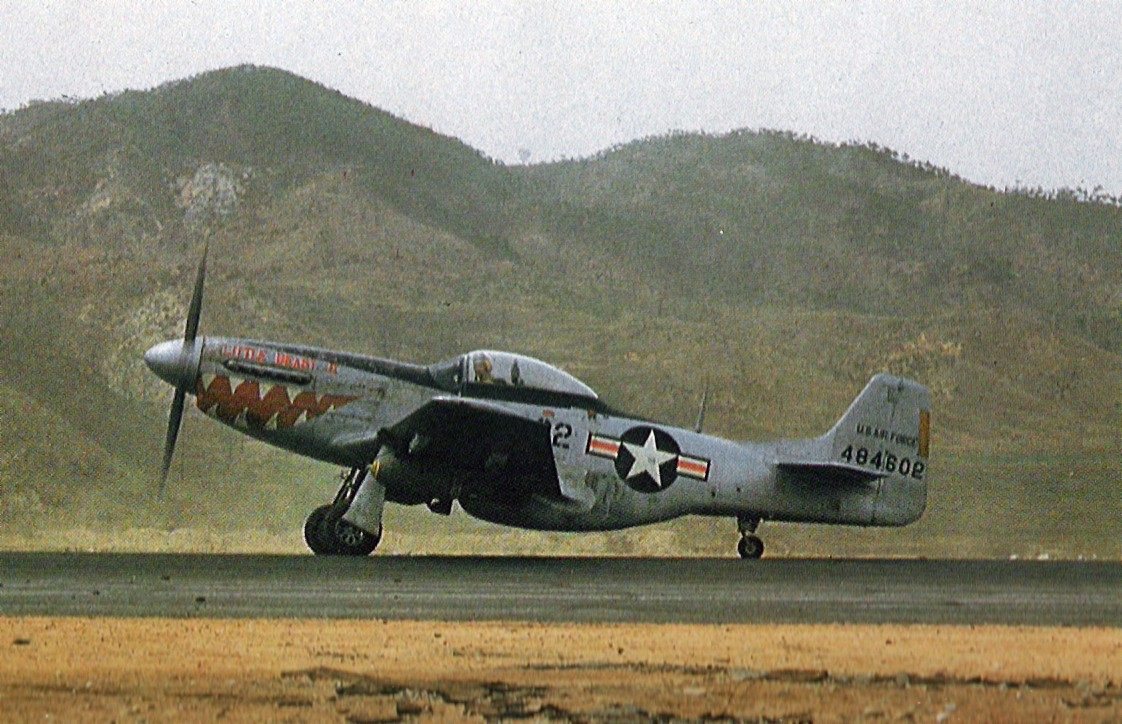 A U.S. Air Force North American F-51D-25-NT Mustang fighter (s/n 44-84602) of the 12th Fighter-Bomber Squadron, 18th Fighter-Bomber Group, nicknamed "Little Beast IV" (?), about to take off from Chinhae, Korea, sometime between 9 December 1950 and 2 June 1952.